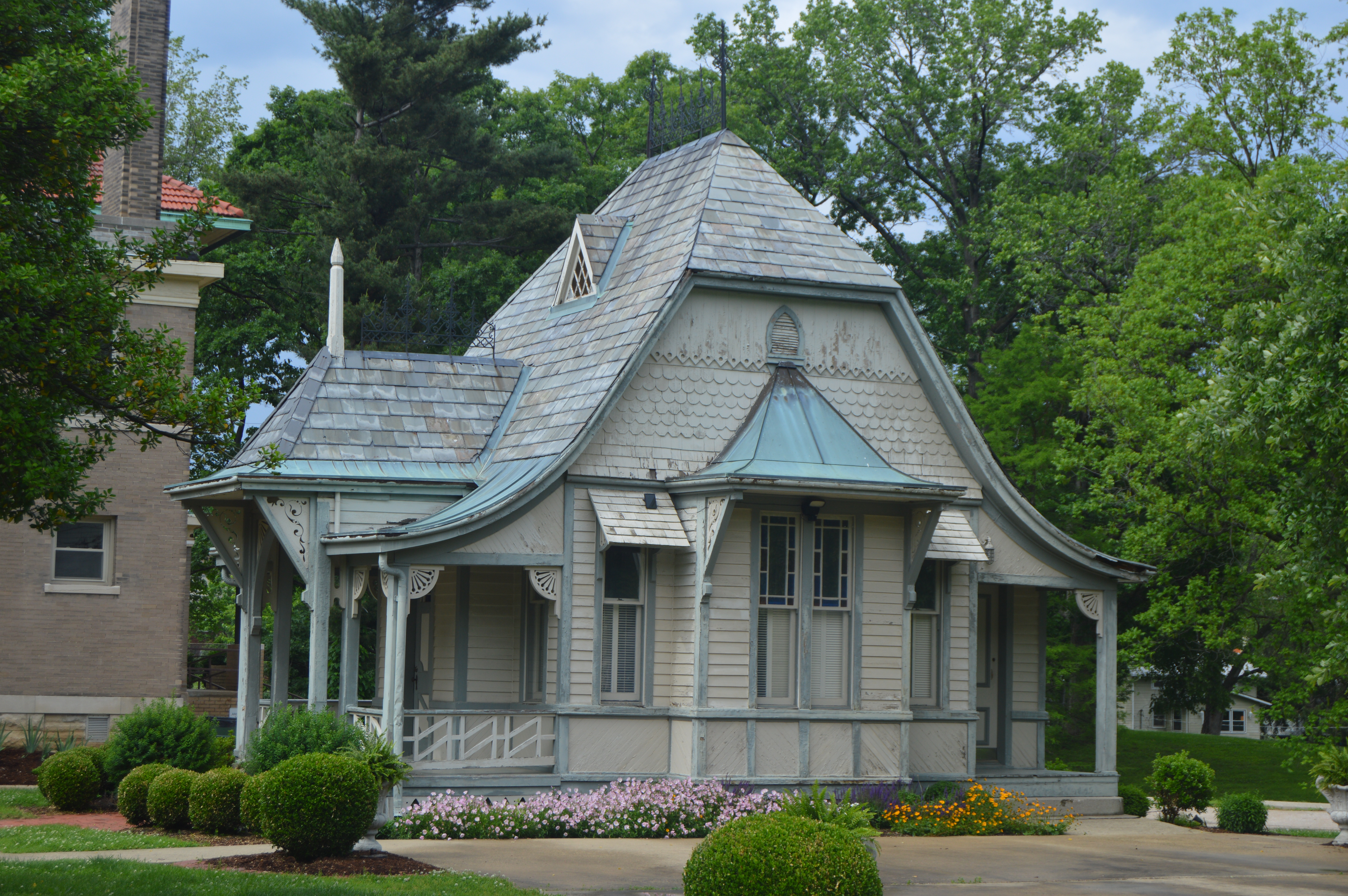 Southern side and front of the Haskell Playhouse, located in Haskell Park off Henry Street in Alton, Illinois, United States. Built in 1885, it is listed on the National Register of Historic Places, and it is part of a Register-listed historic district, the Middletown Historic District.